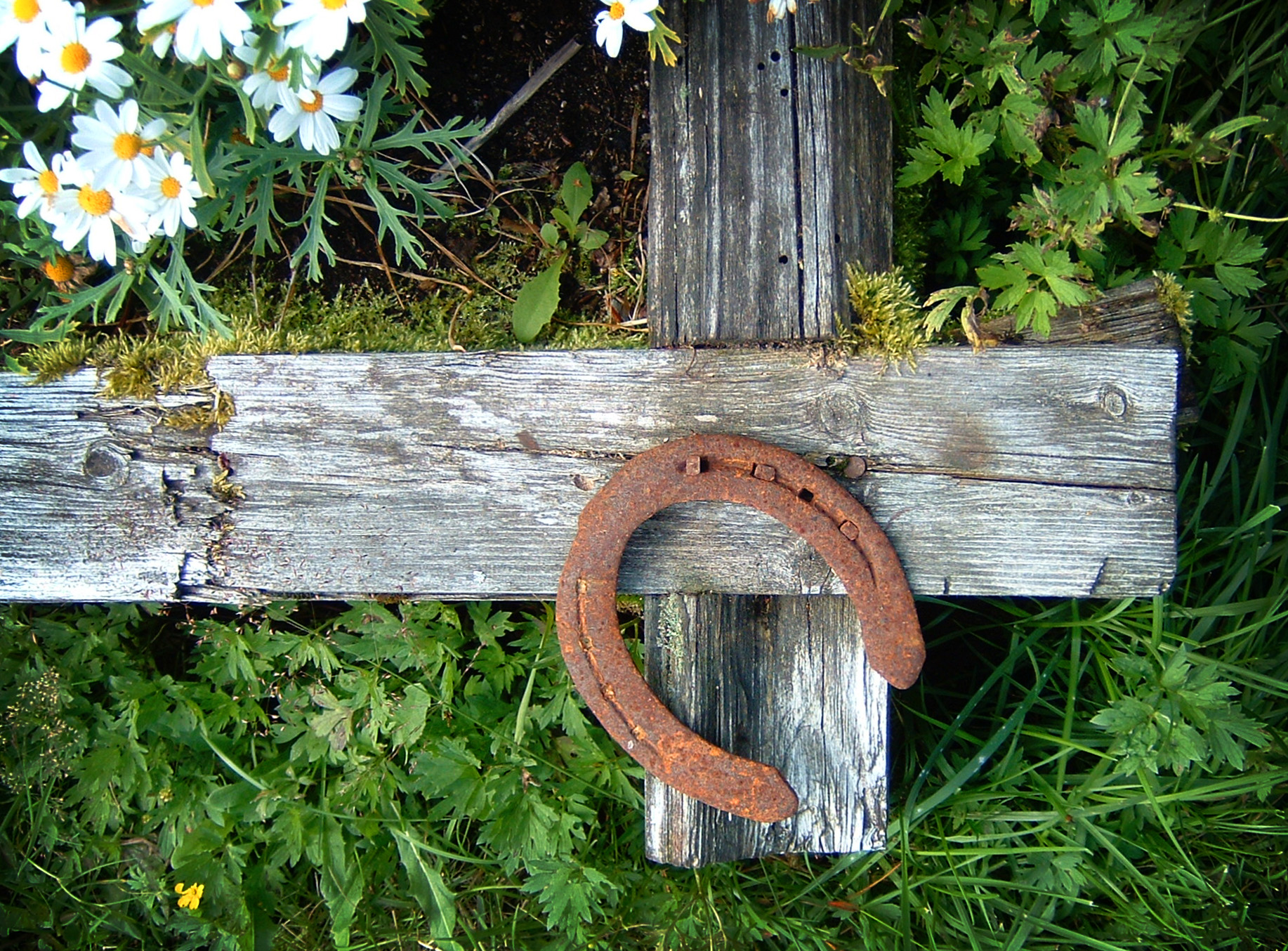 Rusty Horseshoe - Detail from the garden of my childhood home in Kihniö. (Taken near Kihniö, Länsi-Suomi; Finland.)